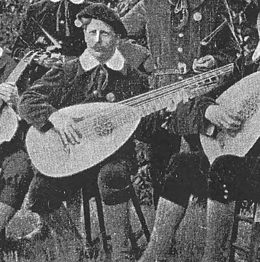 Herman Wirth, playing his archlute as a member of the nationalist folk-group Dietsche Trekvogels (1920)